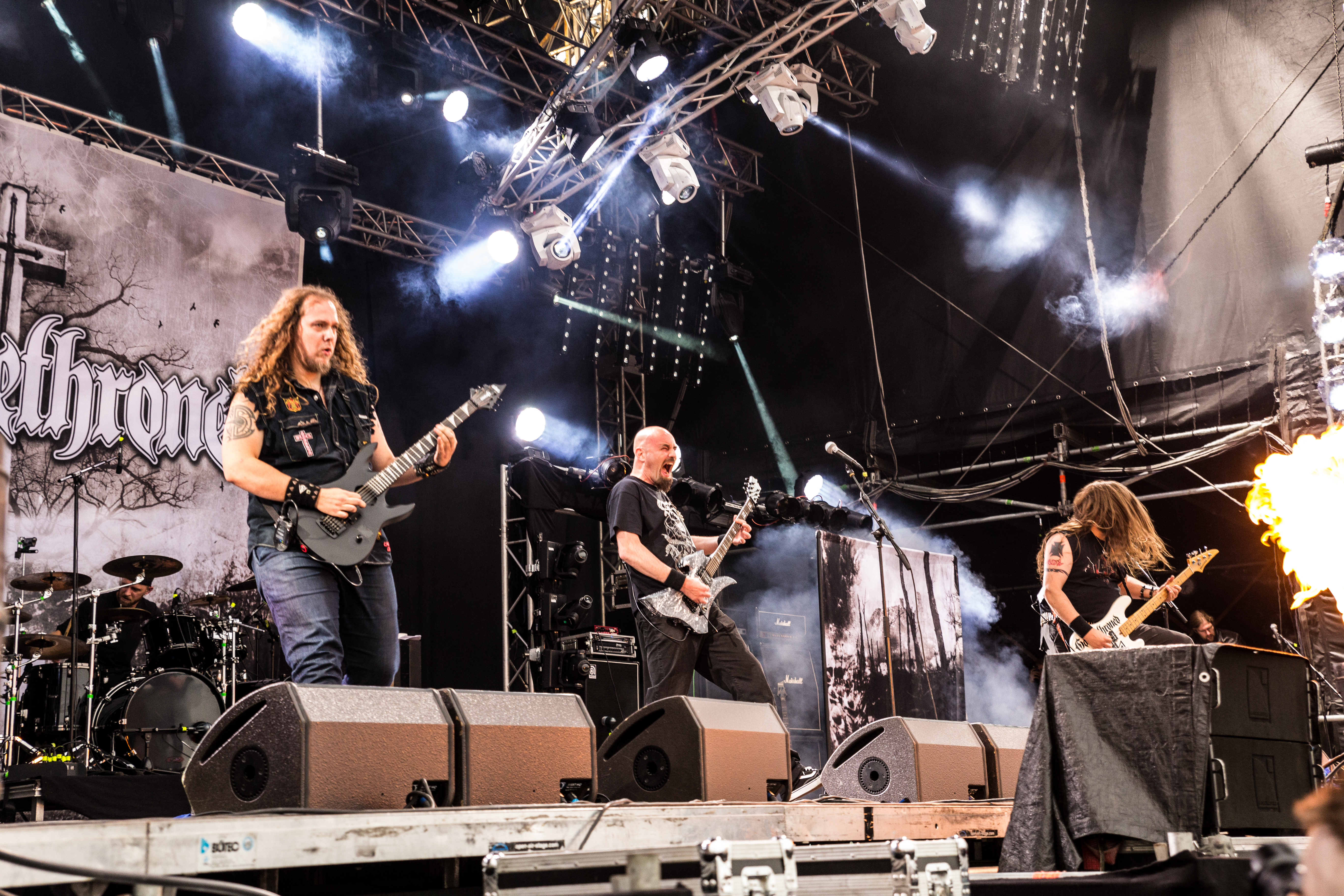 The Dutch blackened death metal band God Dethroned at the Party.San Metal Open Air 2016 in Obermehler-Schlotheim/Germany.